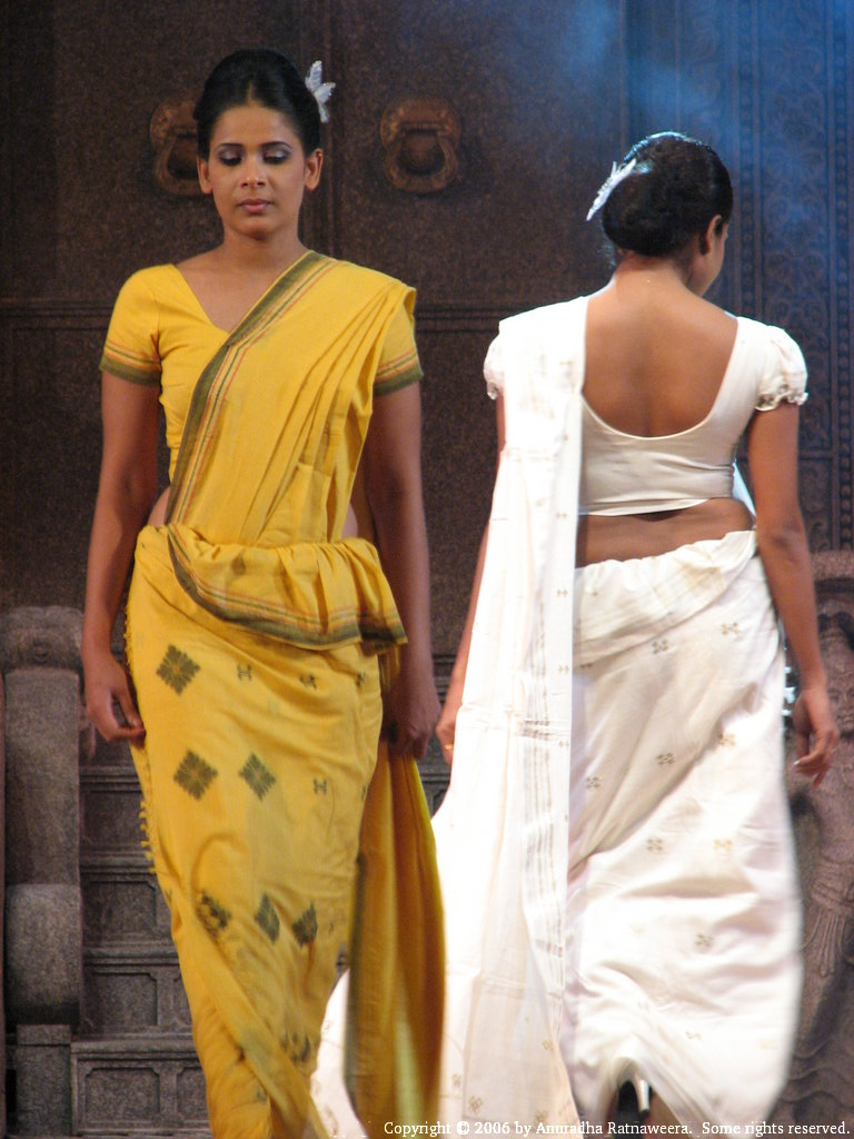 Female models from Sri Lanka